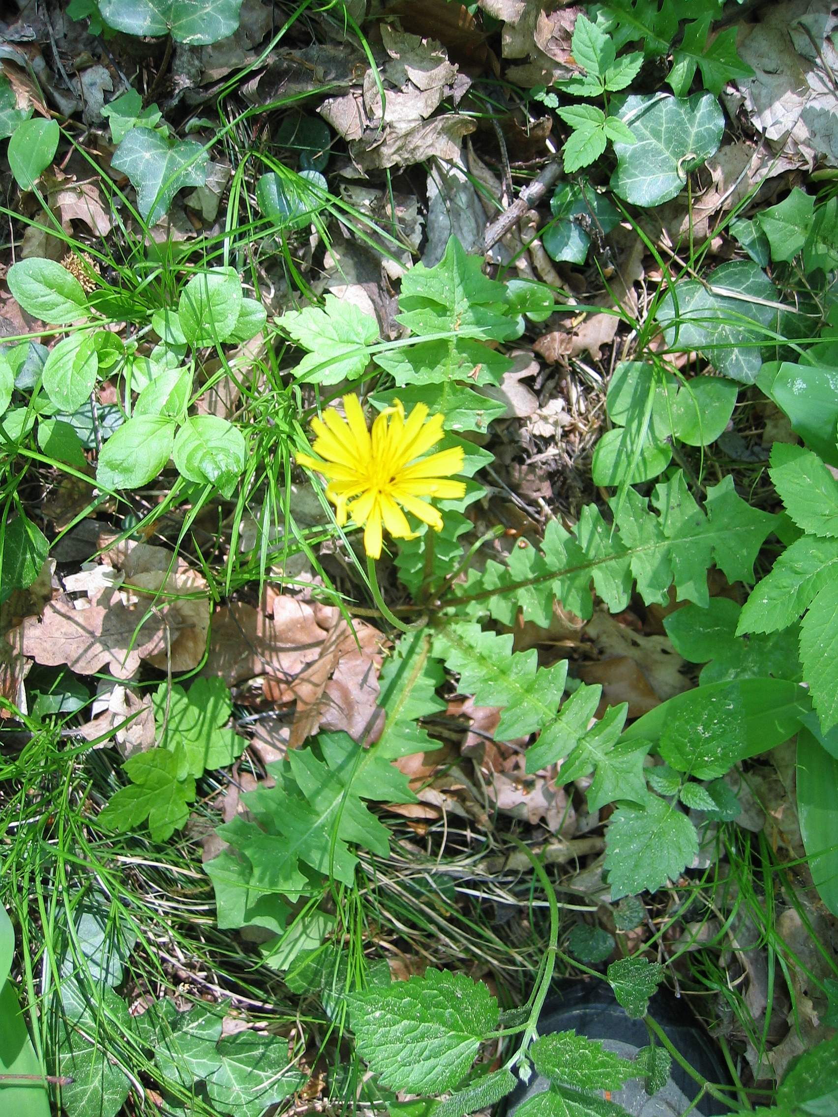 Aposeris foetida Forest Near Gunskirchen, Upper Austria, Austria